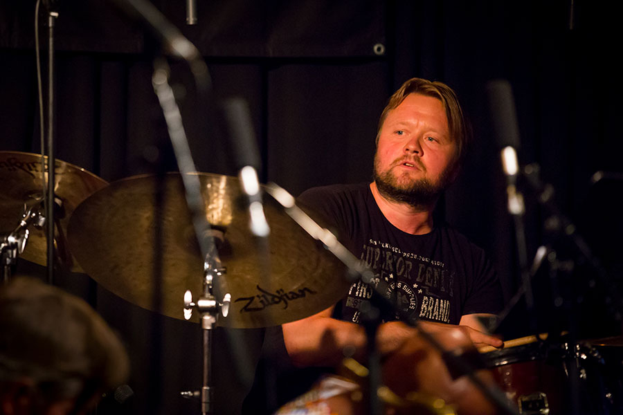 Torstein Lofthus with Halles Komet, Herr Nilsen, Oslo Jazzfestival 2017